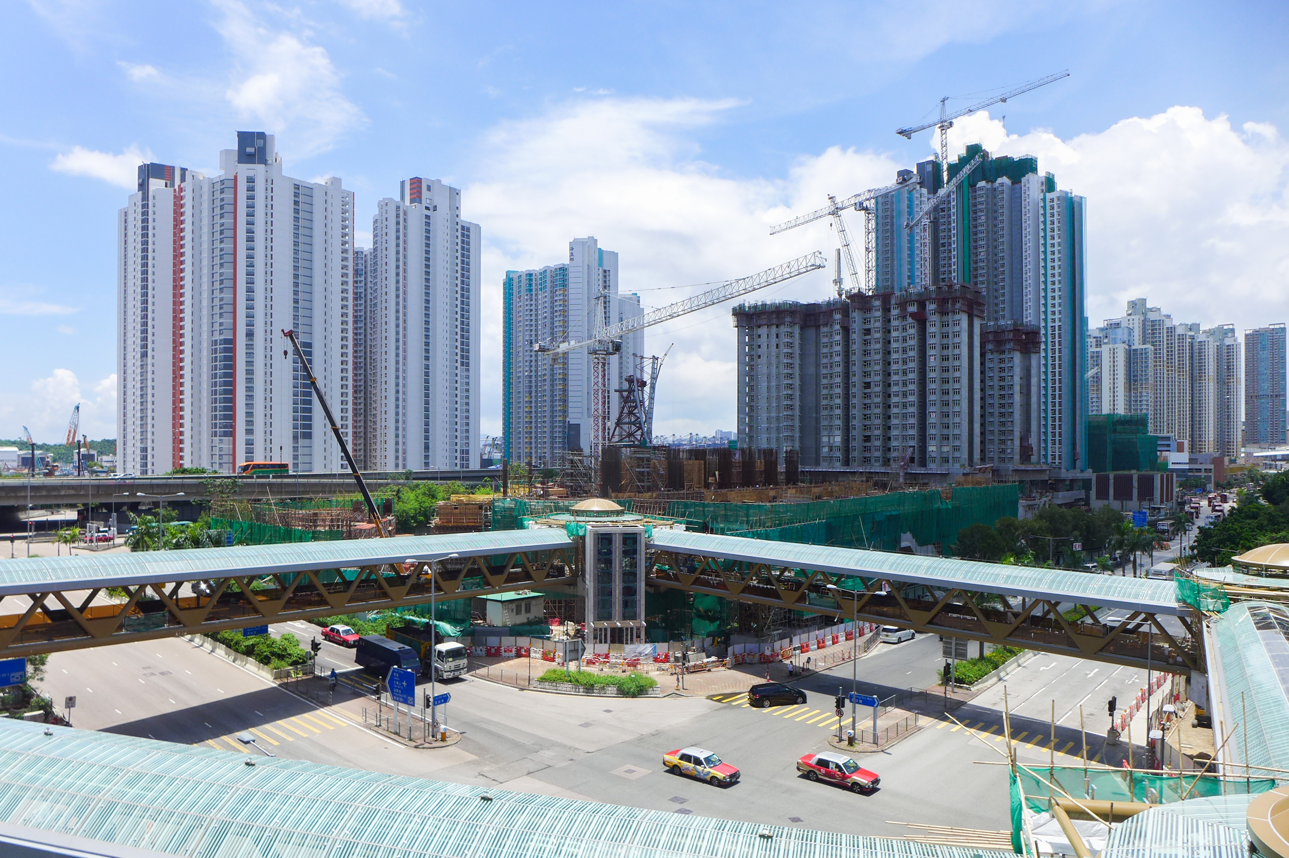 Sham Shui Po Footbridge System